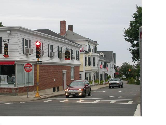 A street in downtown Plymouth, Massachusetts